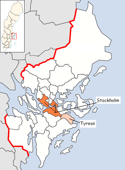 Tyresö Municipality in Stockholm County